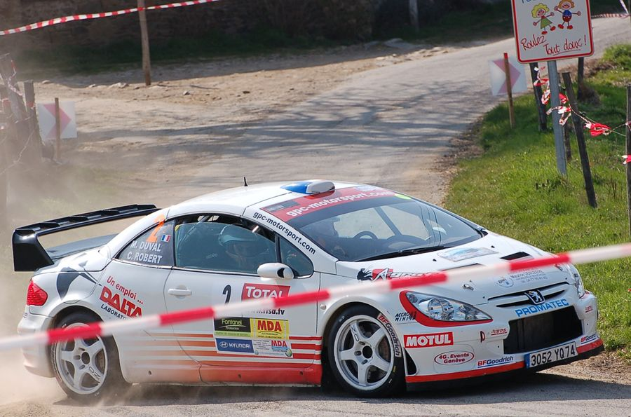 Cédric Robert au Rallye Lyon-Charbonnière en 2010